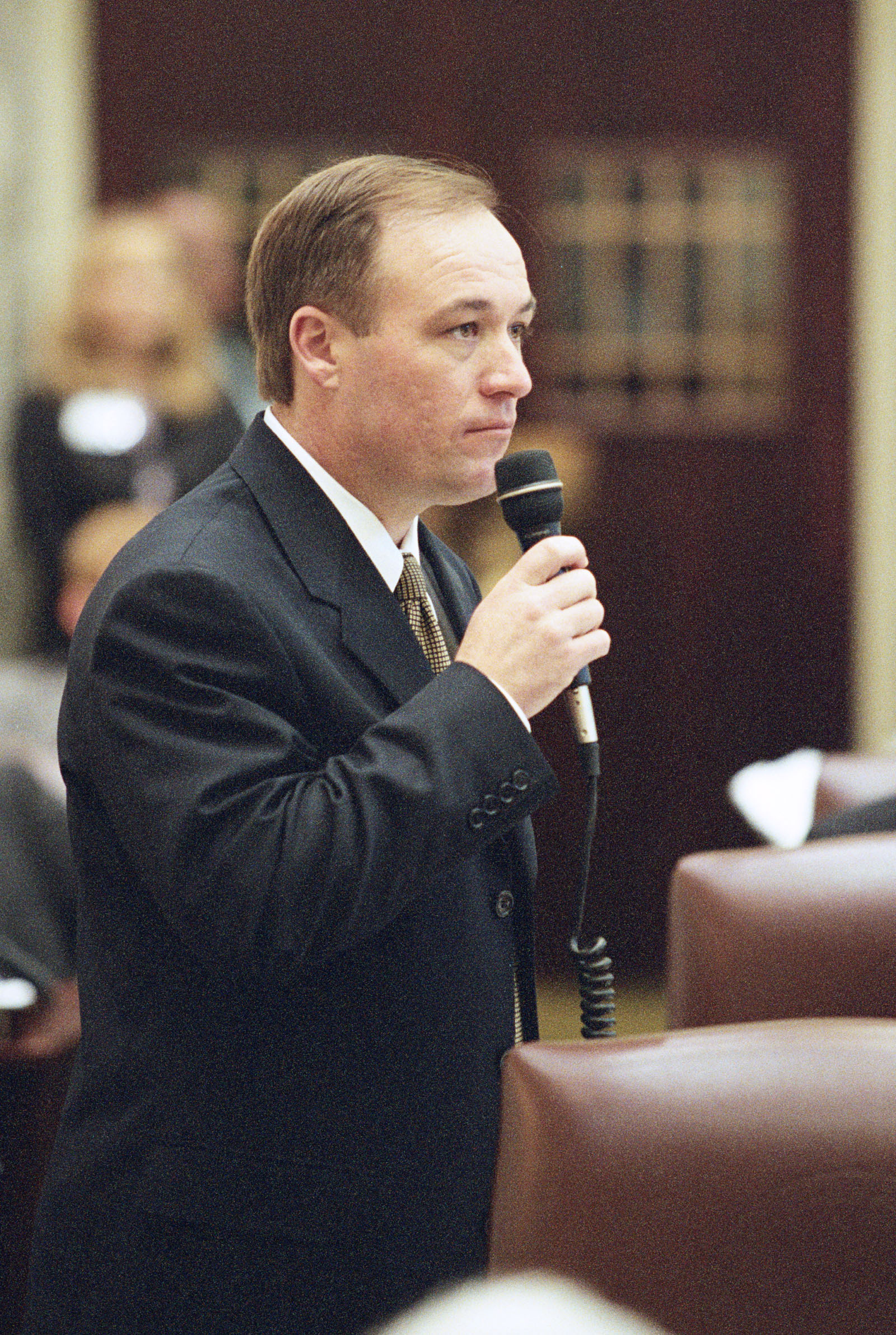 Oklahoma Speaker Todd Hiett speaking to fellow state legislators